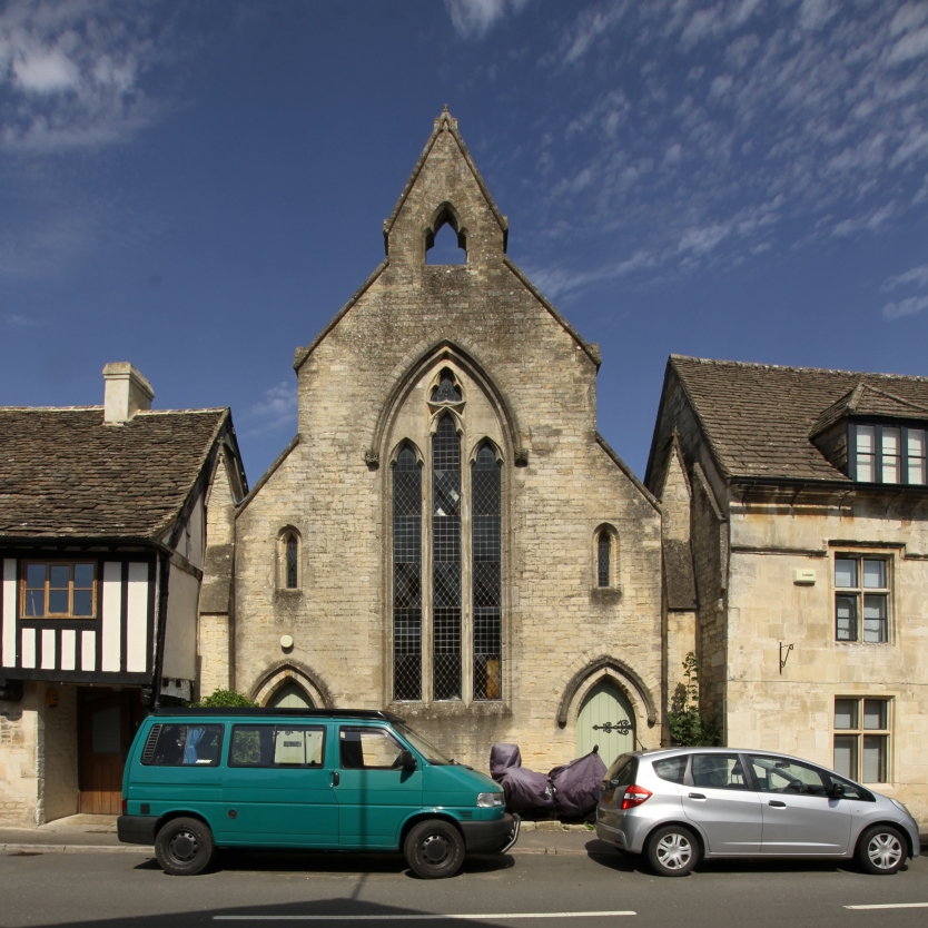 Former Congregational church, High Street, Northleach, Gloucestershire, seen from the southwest